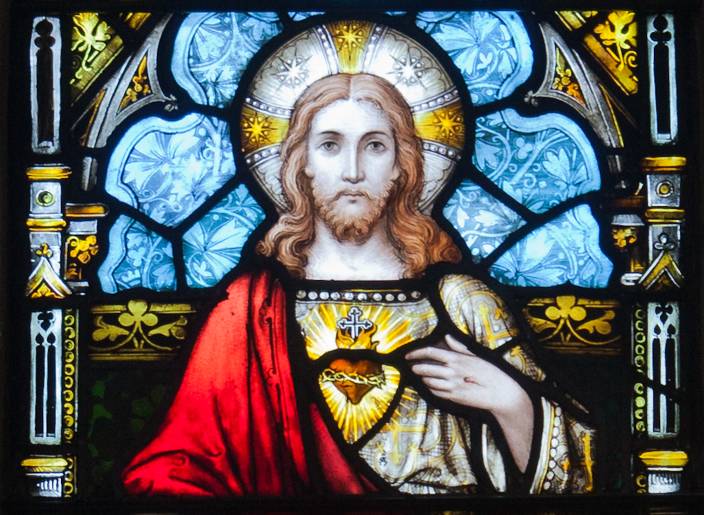 Detail of the stained glass window in the north wall of the side chapel of the north transept, depicting the Sacred Heart of Jesus.